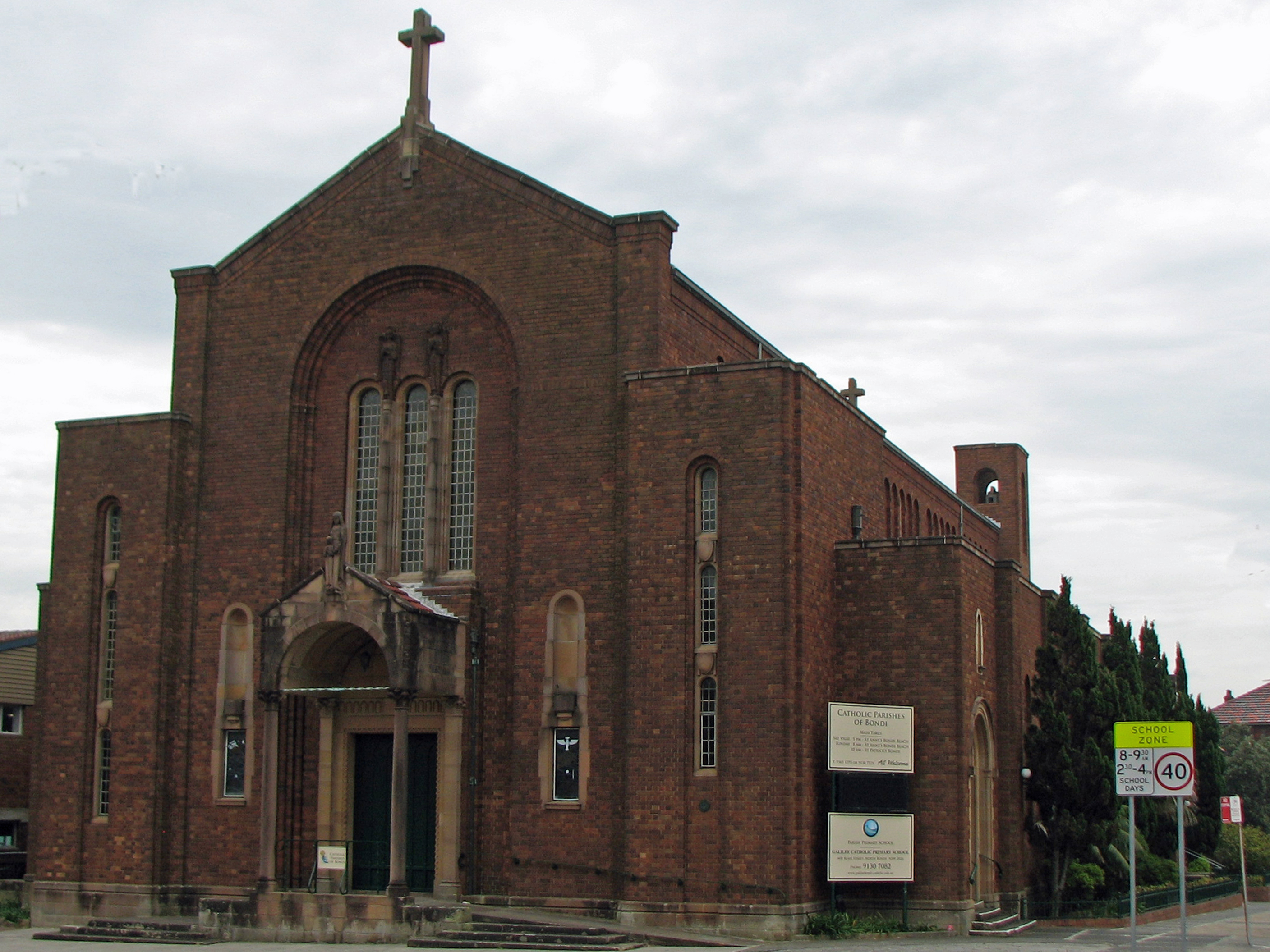 St Anne's Catholic Church, 60 Blair Street, Bondi, New South Wales.